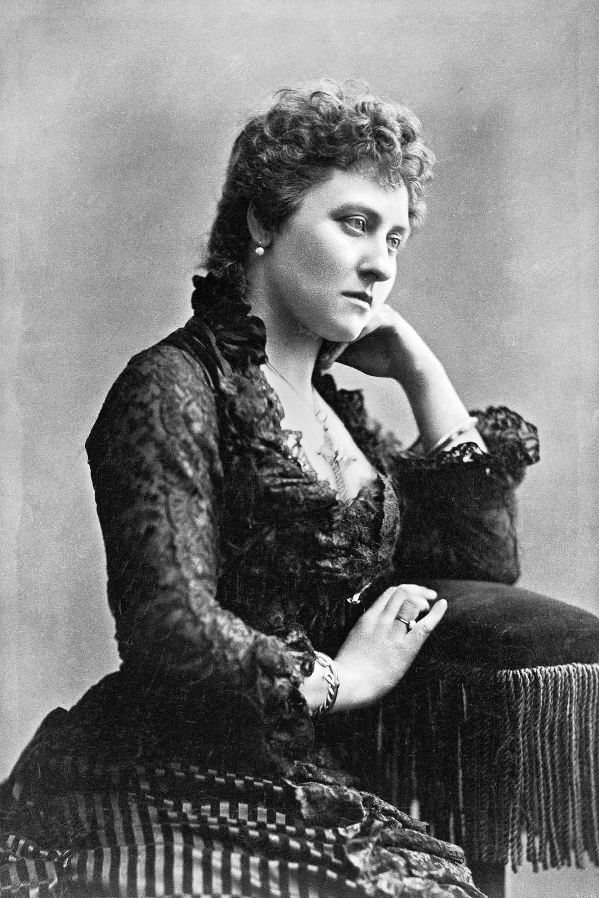 Princess Louise in Venice